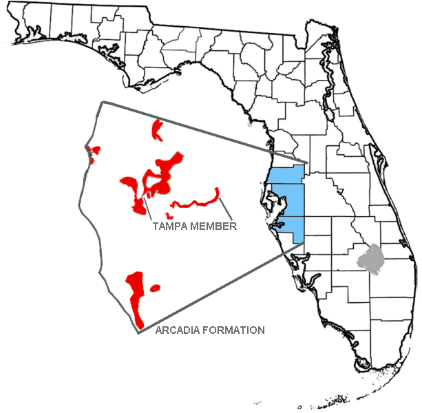 Map showing location of the Arcadia Formation